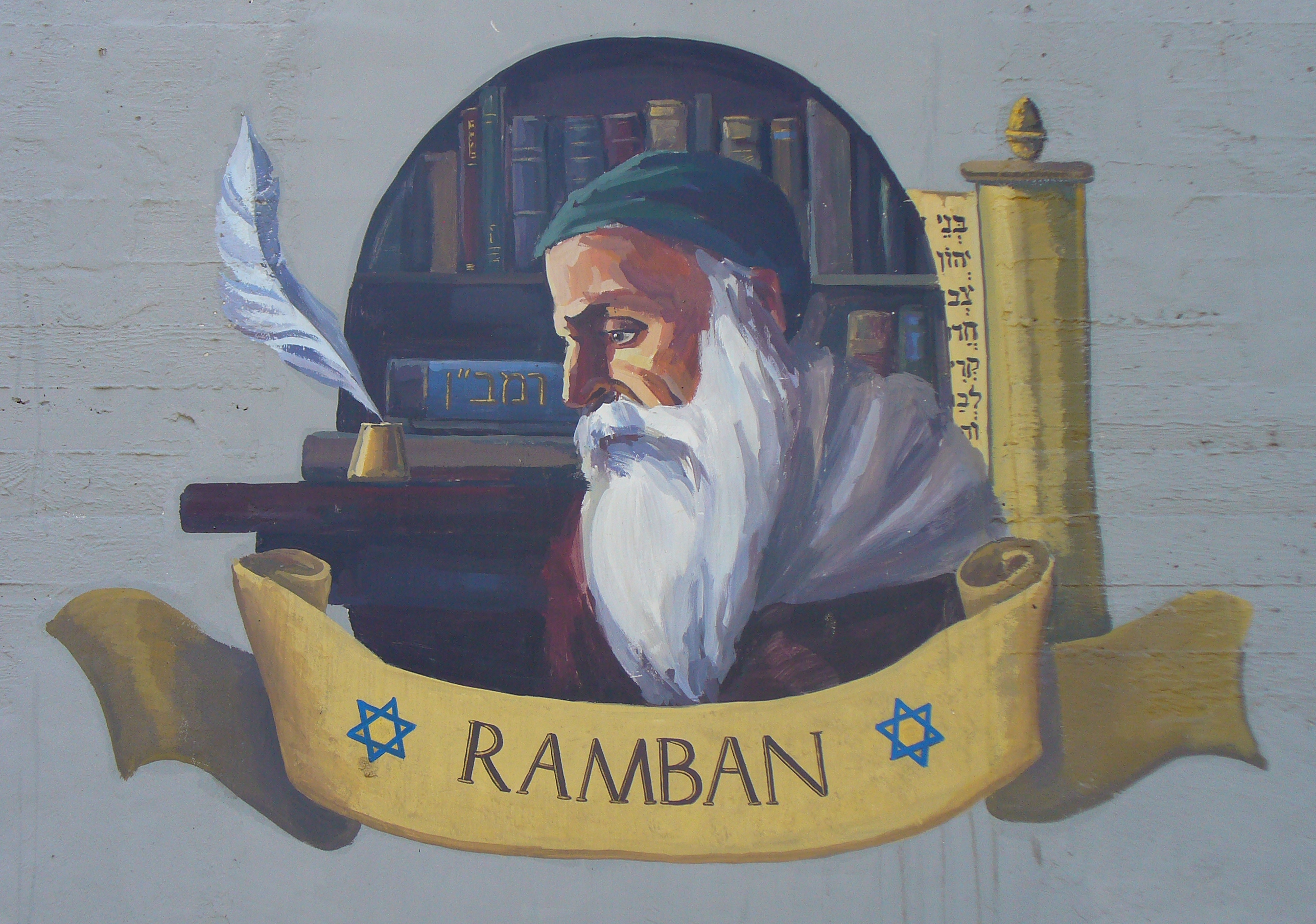 Nahmanides (Ramban), wall painting in Acre, Israel.